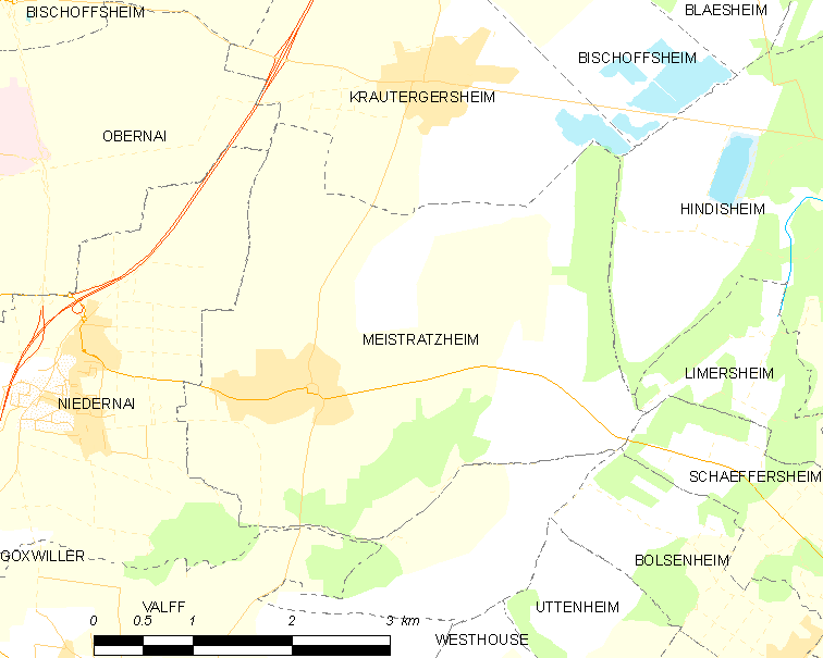 Map of French municipality